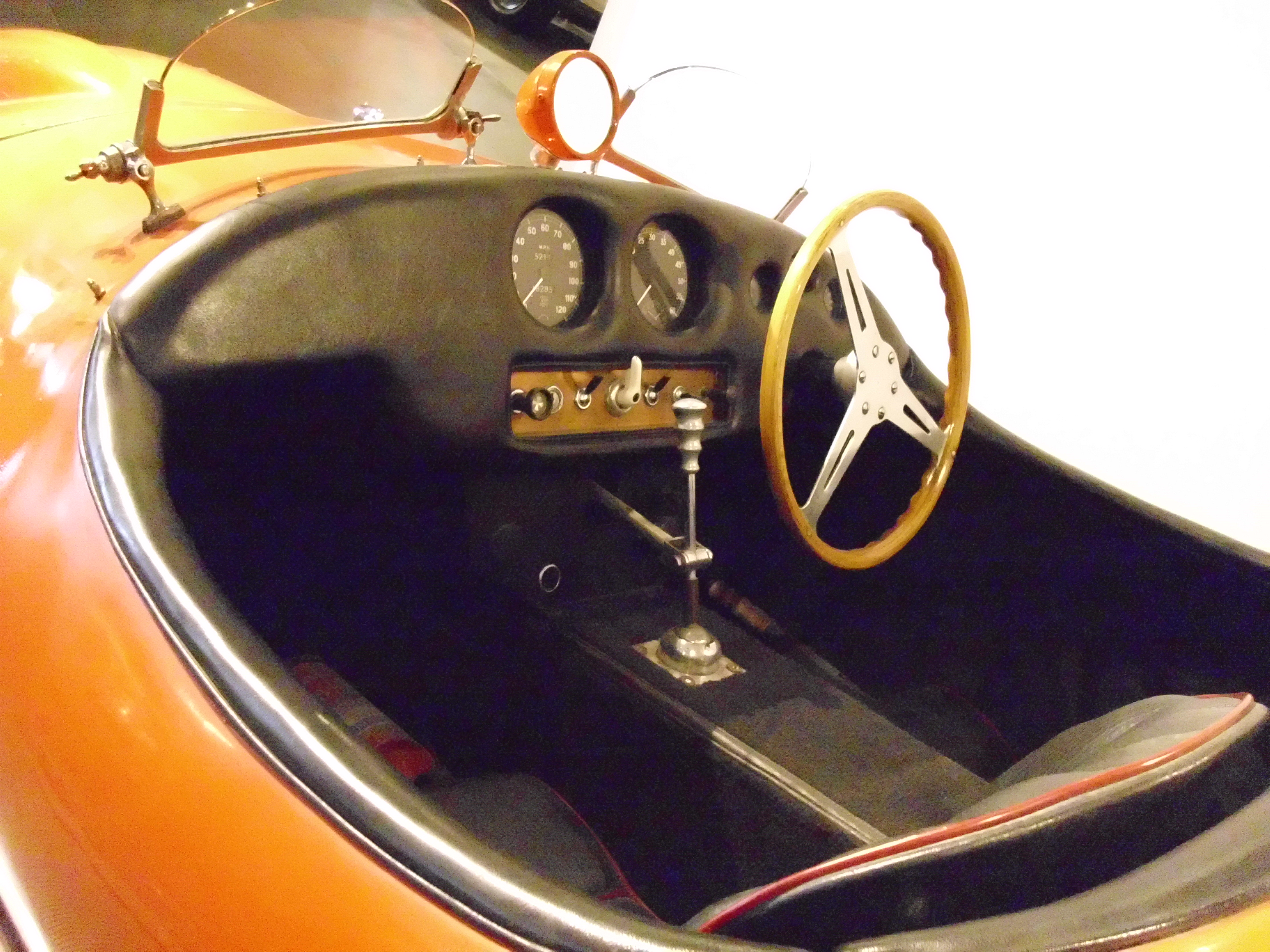 Super Accessories Super Two 1962 Interieur